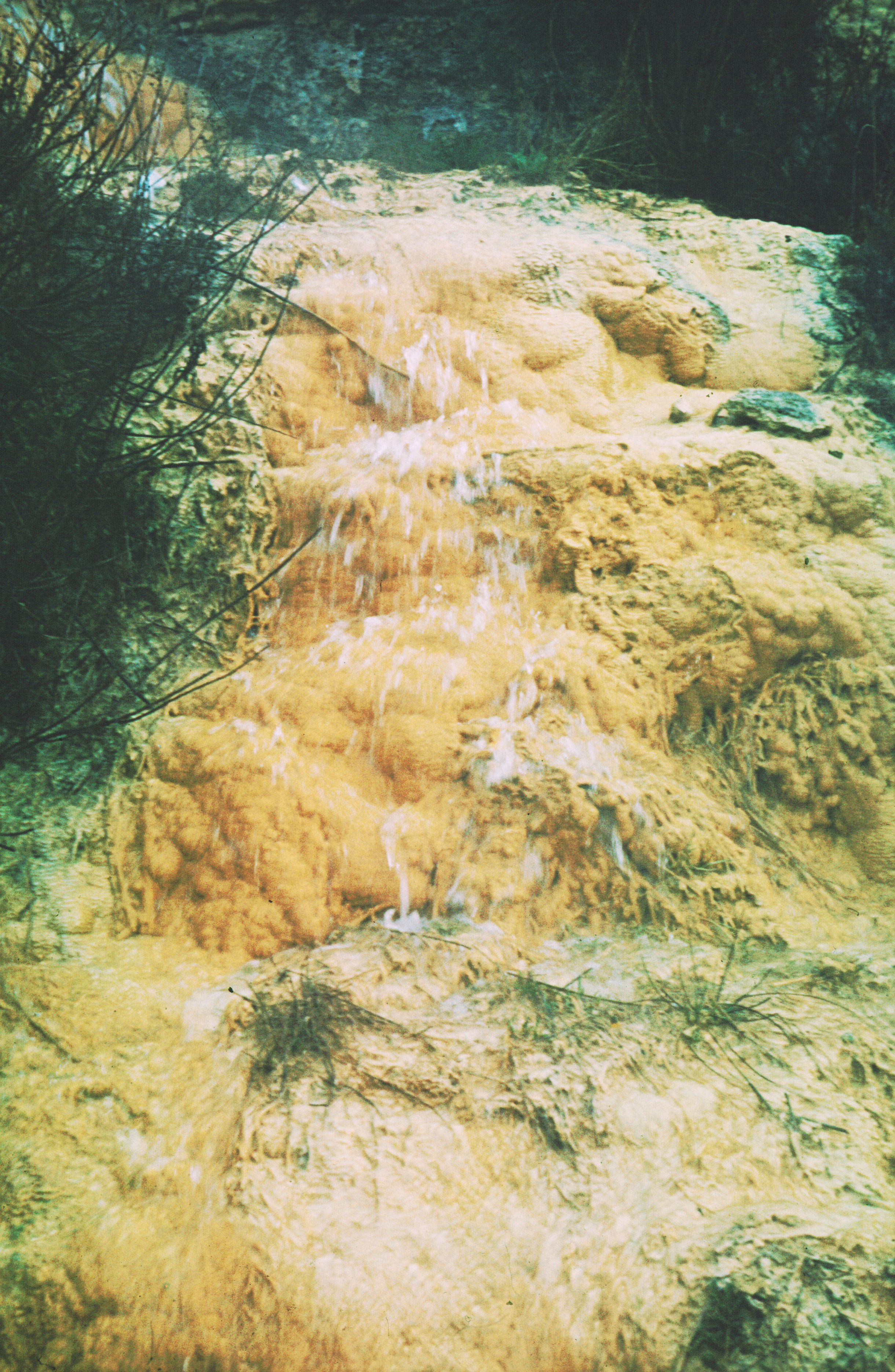 Formation of travertine in a thermal spring at Bagno Vignoni, Tuscany, Italy